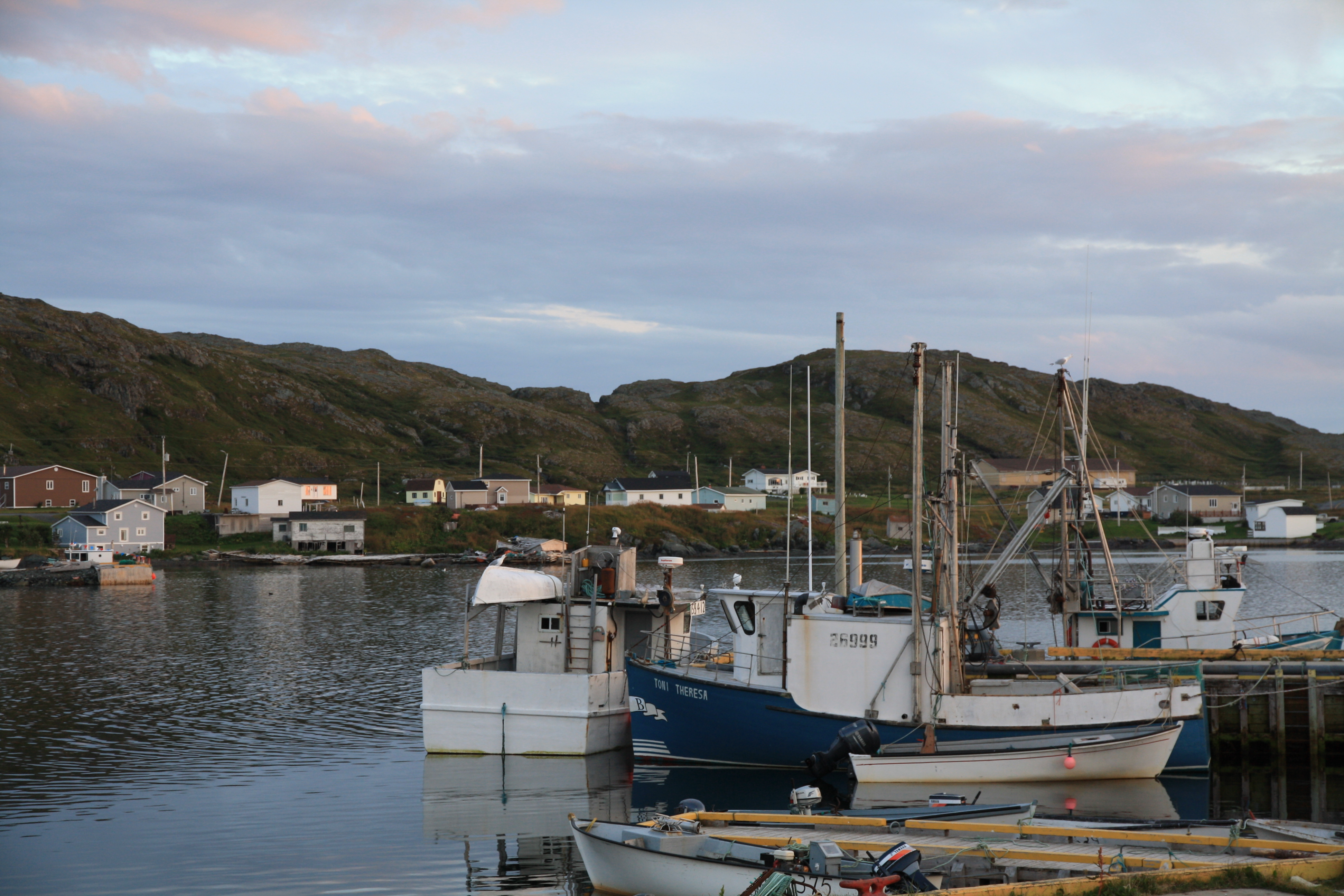 A shot of Goose Cove near sunset on August 31, 2014